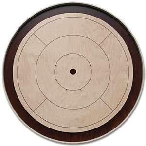 Round tournament style crokinole board handmade in Canada by Murray Skaling of Muzzies Crokinole